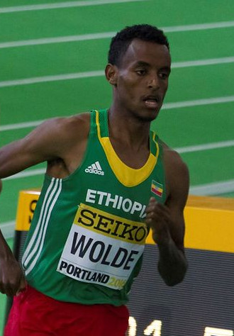 Dawit Wolde during 2016 IAAF World Indoor Championships in Portland